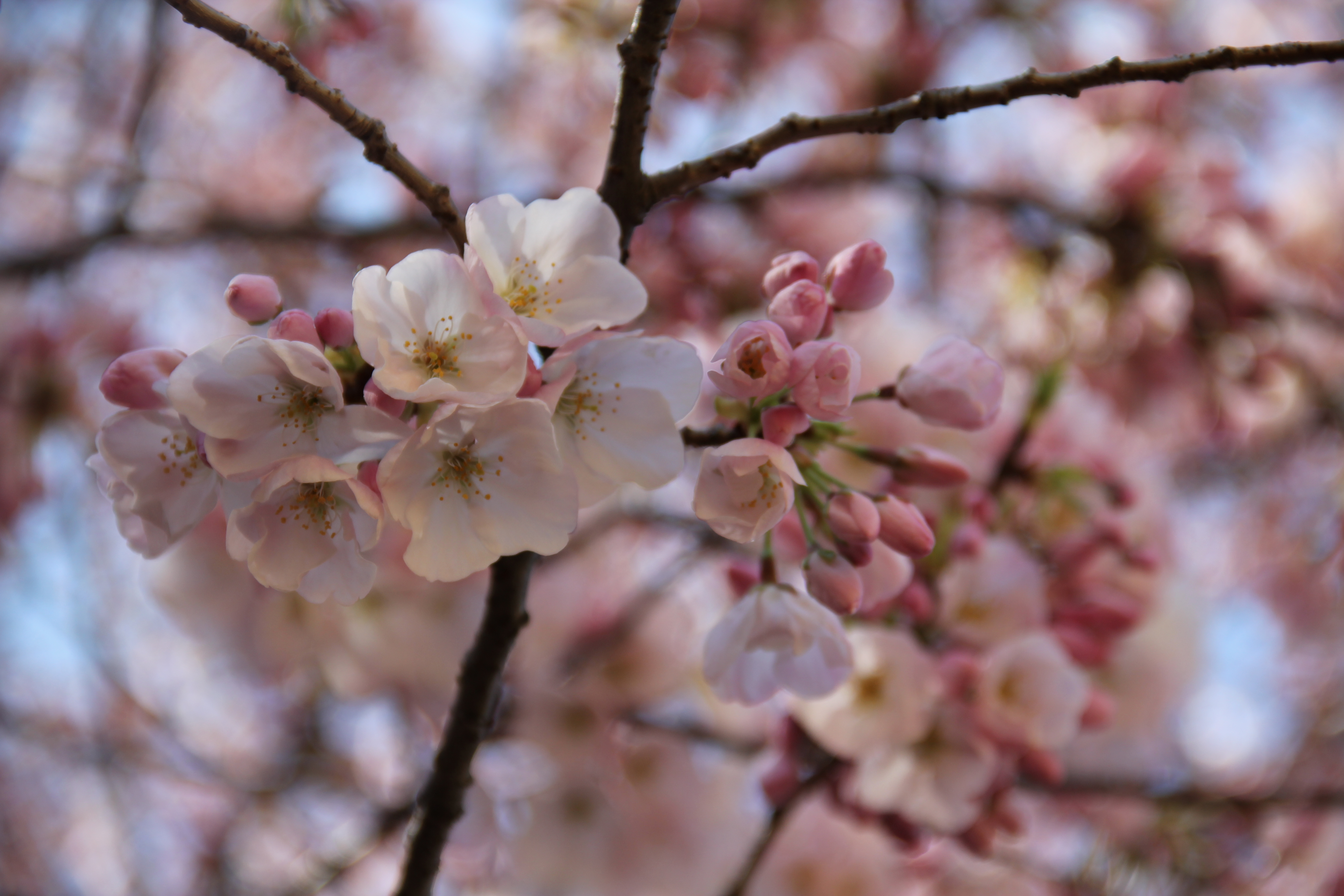 Cerasus_×_yadoensis_Akebono